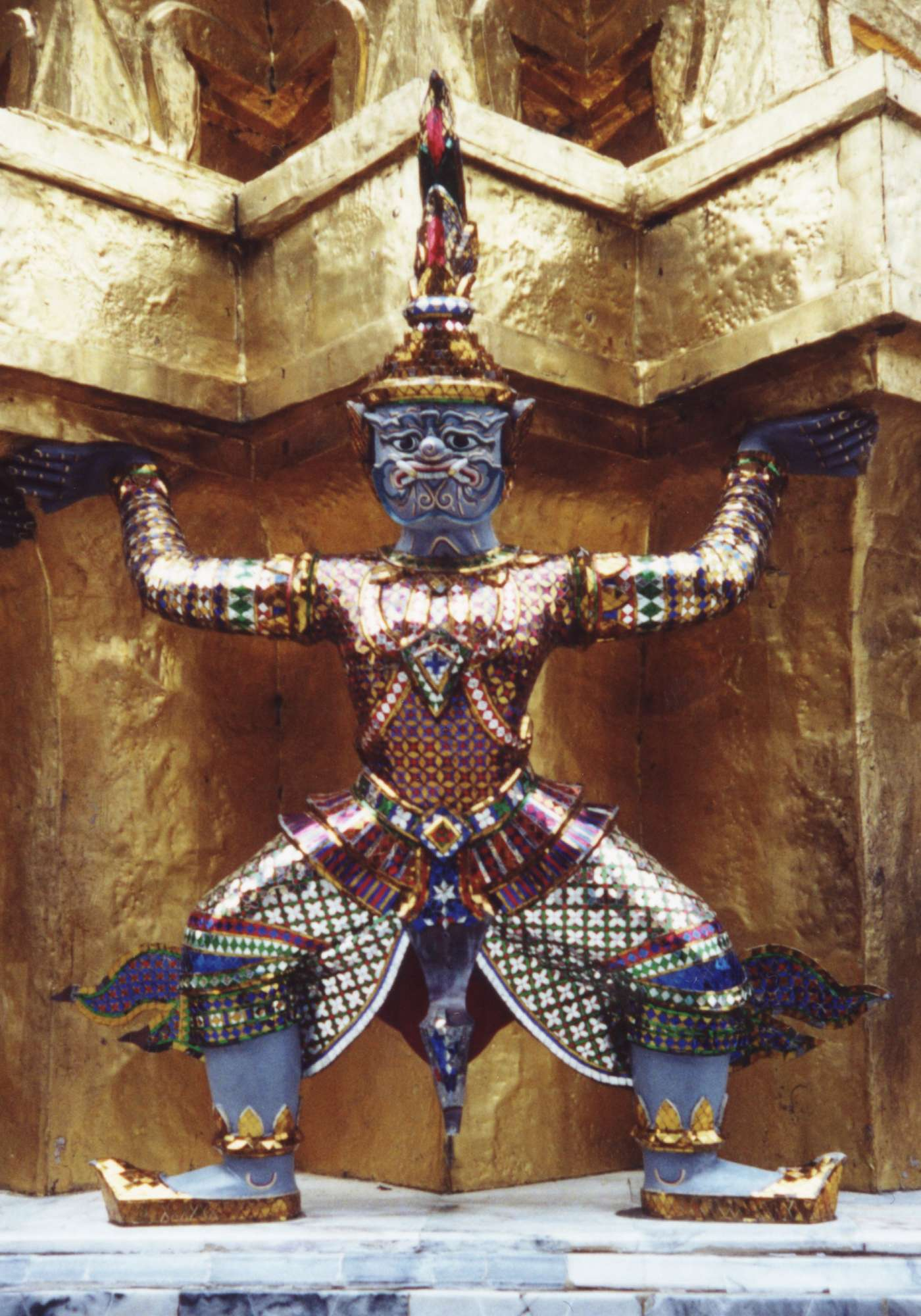 A figure from the Ramakien (probably a Giant), located at the golden chedi in the Wat Phra Kaew, Bangkok, Thailand. Photo taken by User:Ahoerstemeier on April 2 2001.